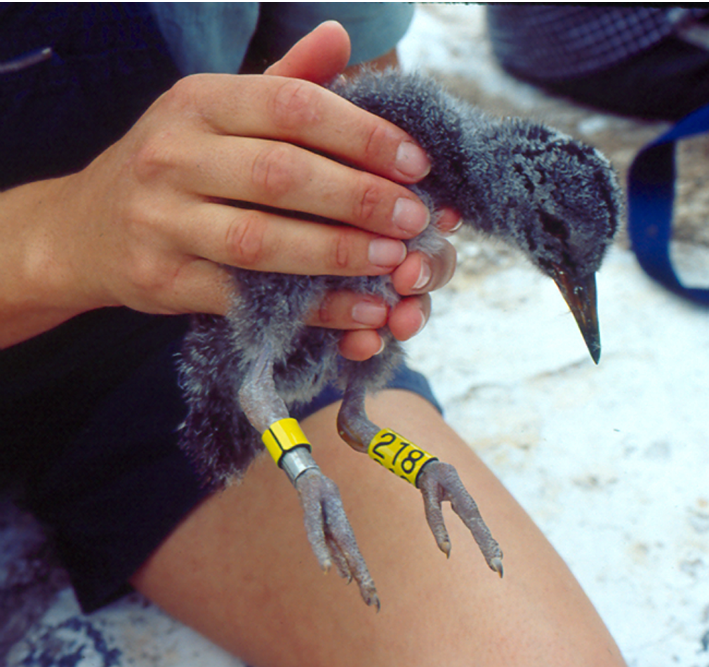 An African Black Oystercatcher chick with the numbered colour rings that are used to follow its survival and migratory movements over several years.